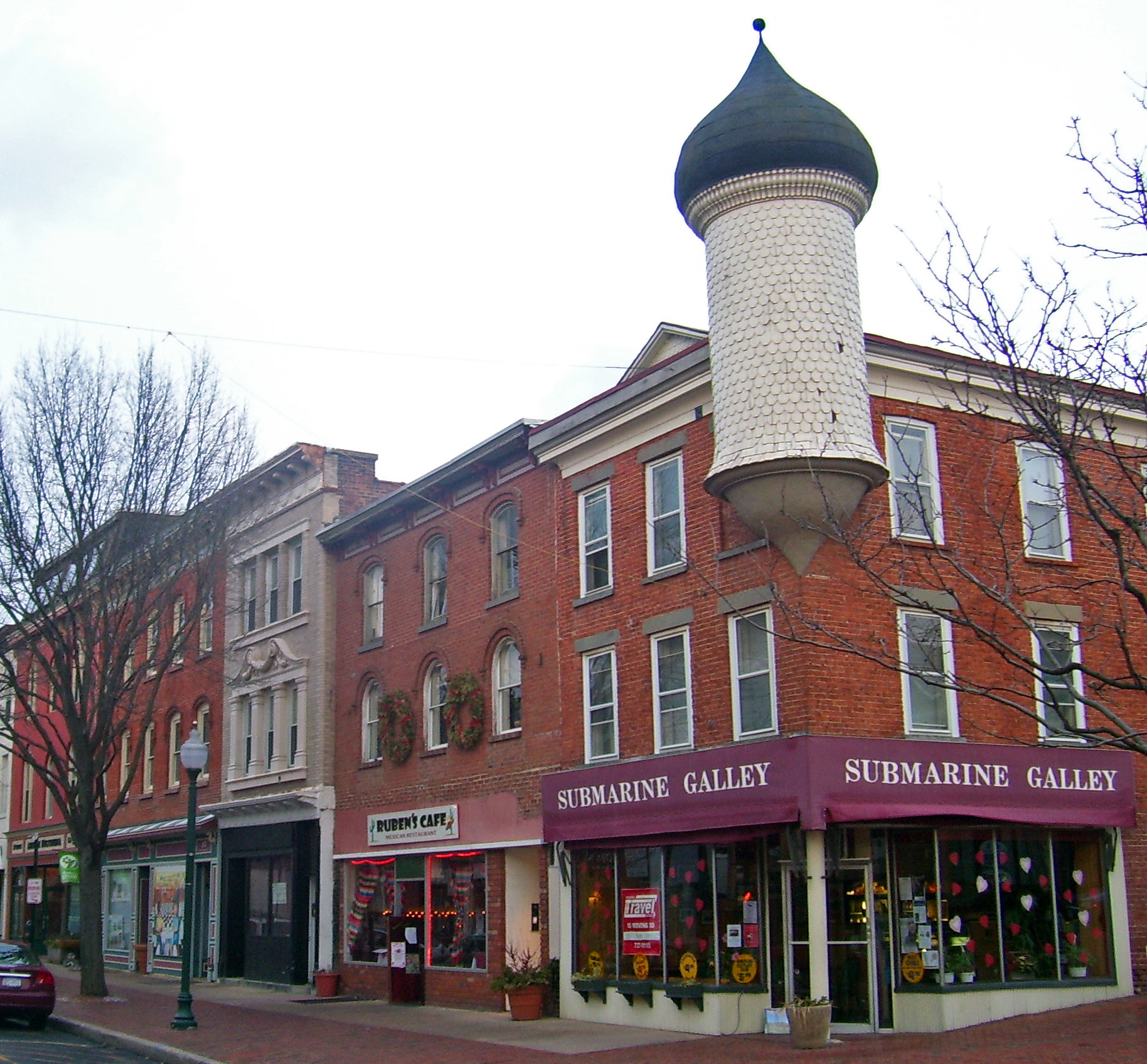 NE corner of Division and Park streets in Peekskill, NY, USA, with landmark Moorish Revival tower, part of Peekskill Downtown Historic District